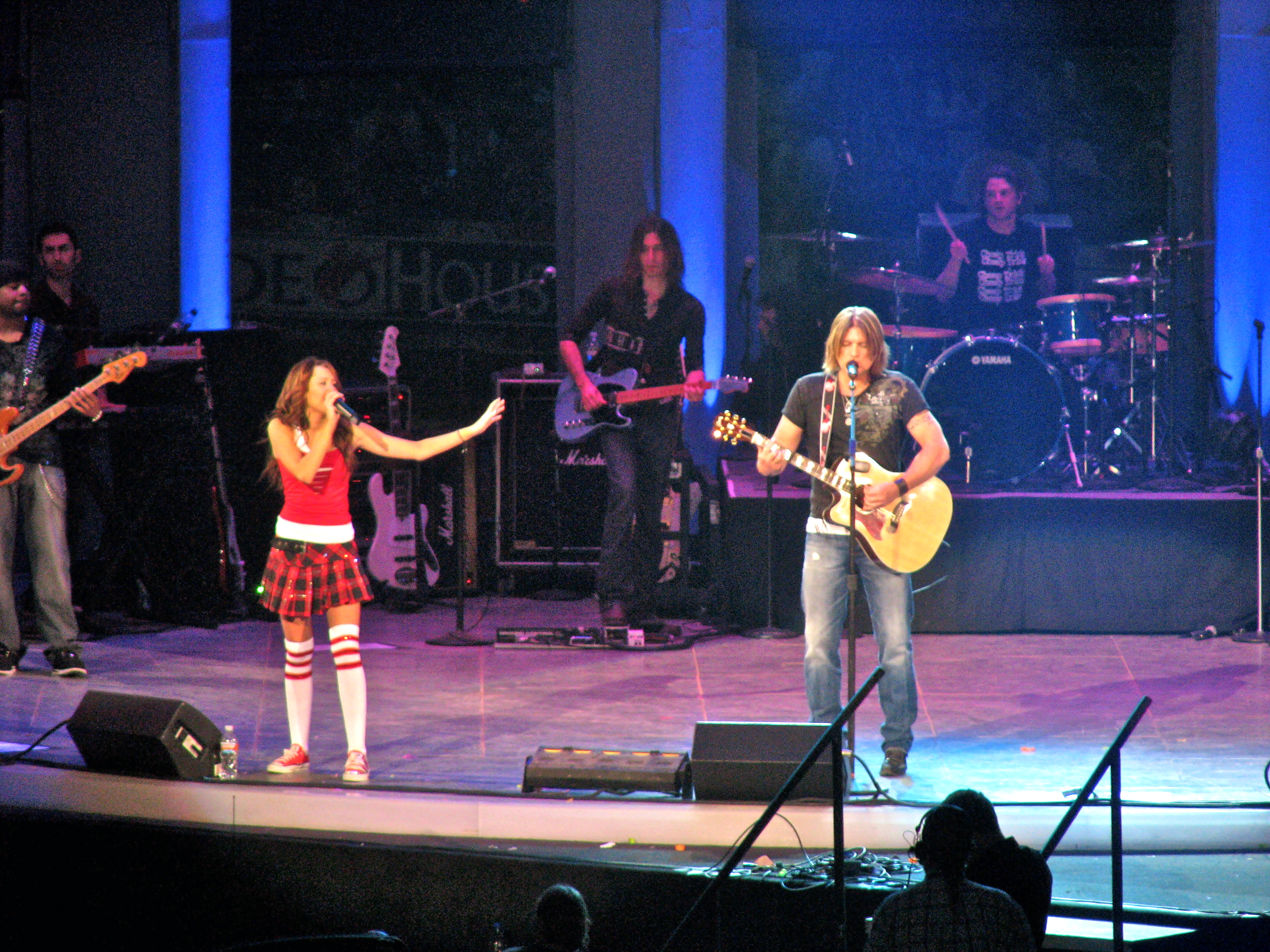 A teen and a man singing.